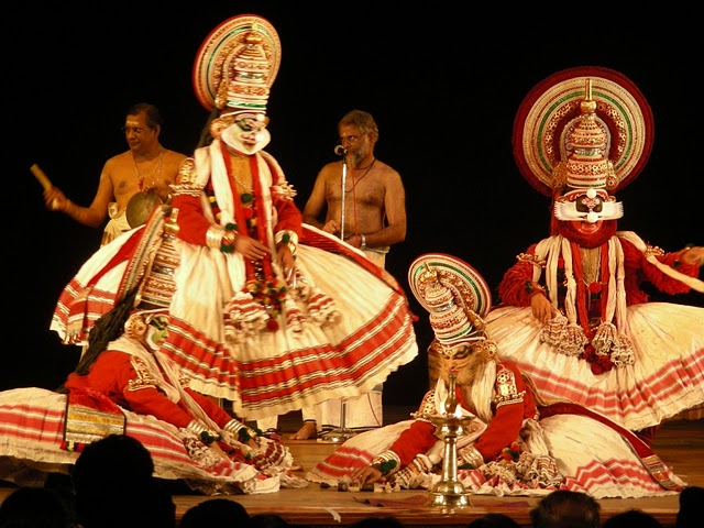 Kathakali, Kerala Dance Drama, home.